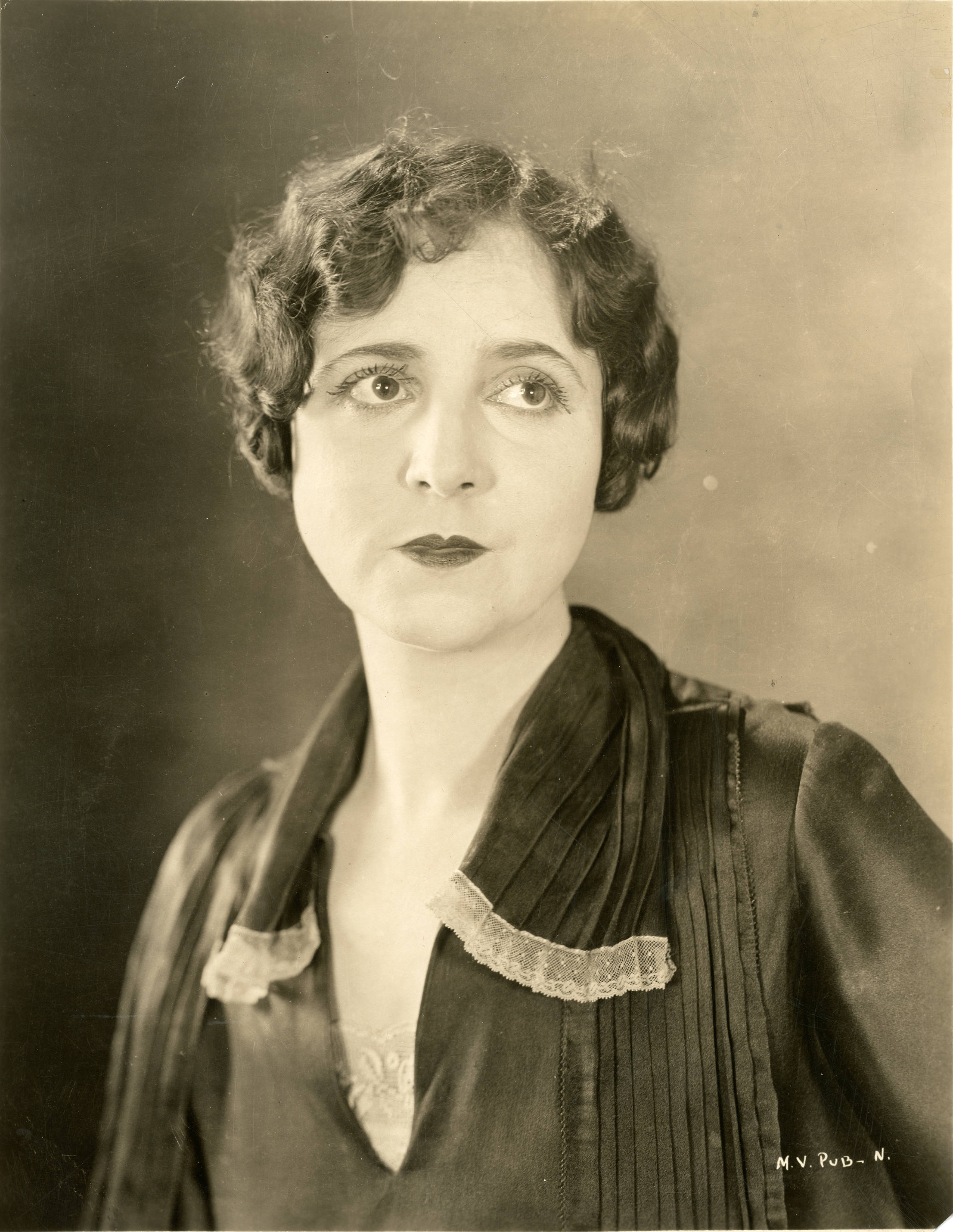 Silent film actress Beverly Bayne. Subjects: actresses